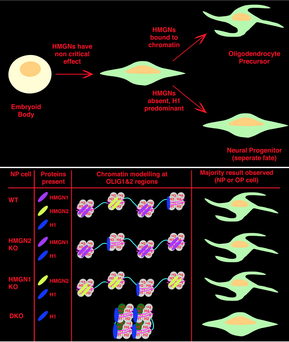 HMGN proteins facilitate oligodendrocyte differentiation